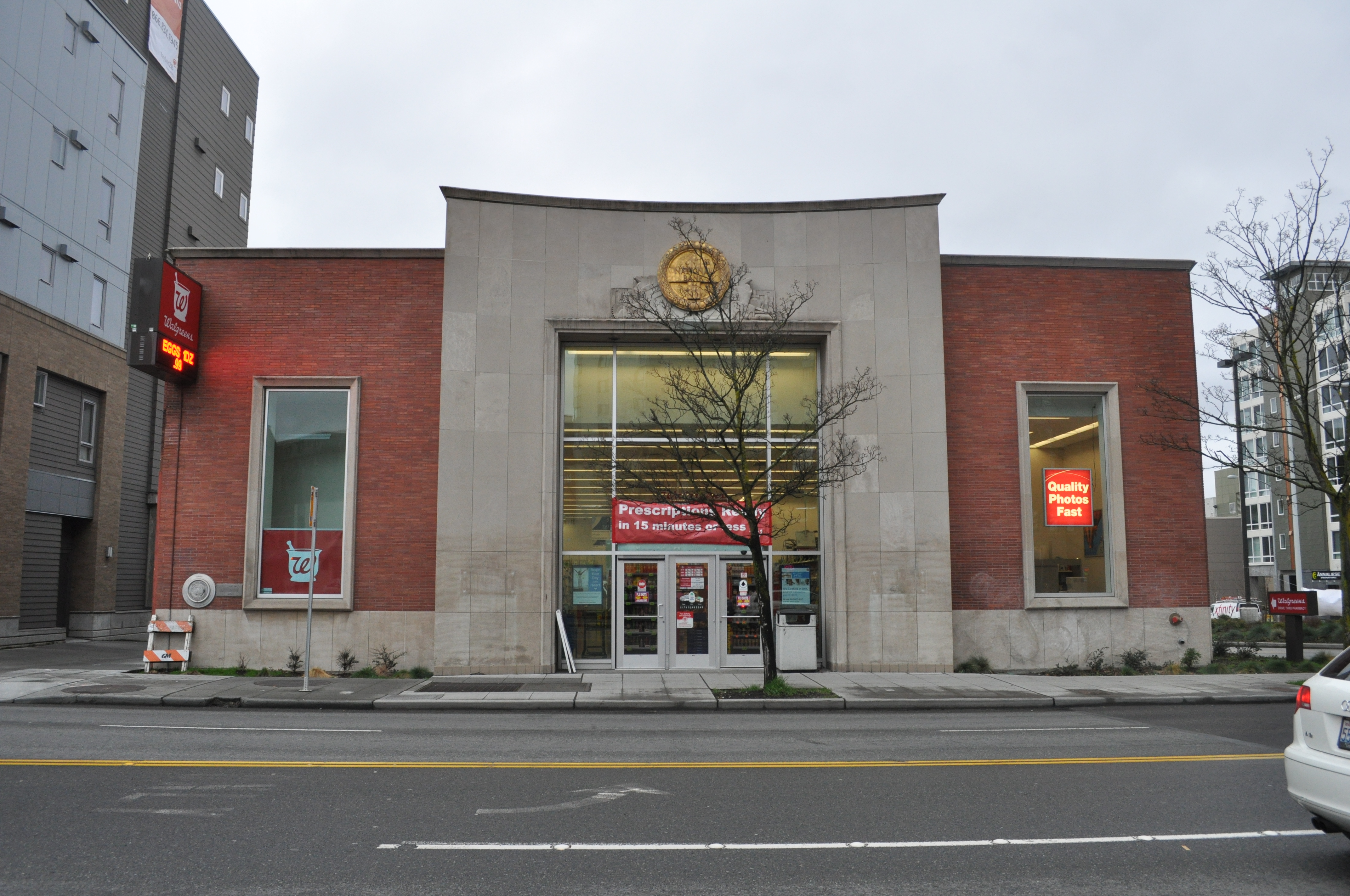 566 Denny Way, Seattle, Washington, USA. A former SeaFirst Bank (Seattle First National Bank), later Bank of America, now a Walgreens.